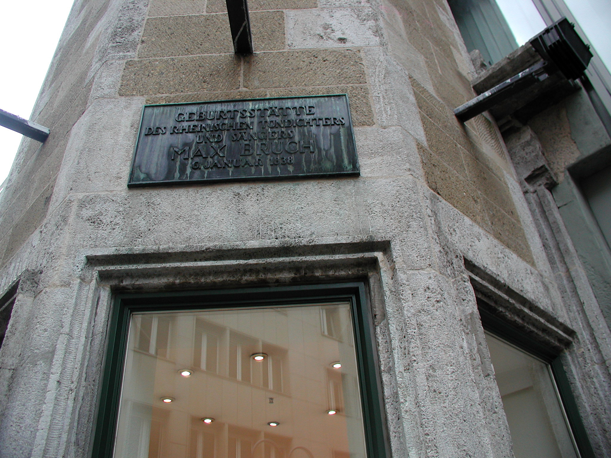 Max-Bruch, Geburtshaus. Gedenktafel am Richmodisturm